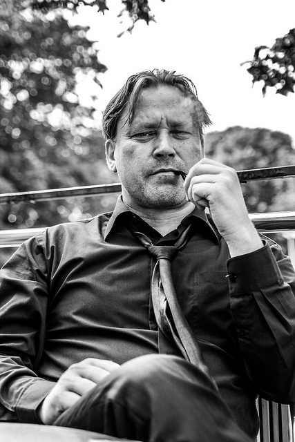 Artistic Director of Rakvere Theatre - Üllar Saaremäe.